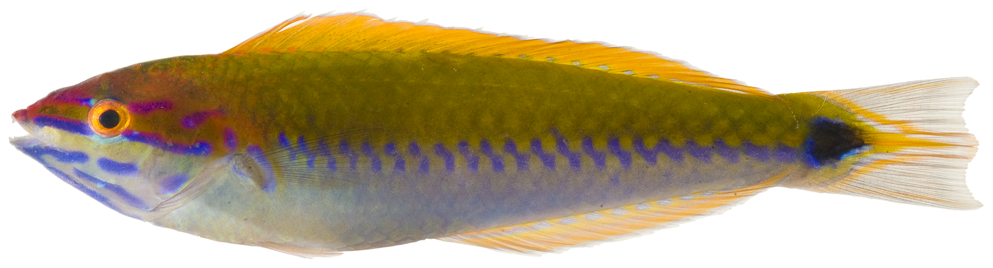 Halichoeres pictus (Poey, 1860)—rainbow wrasse, 85.0 mm SL, terminal male color phase. Photo by JT Williams.